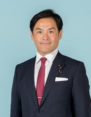 Iwata Kazuchika was inaugurated as Parliamentary Vice-Minister of Defense on September, 2019